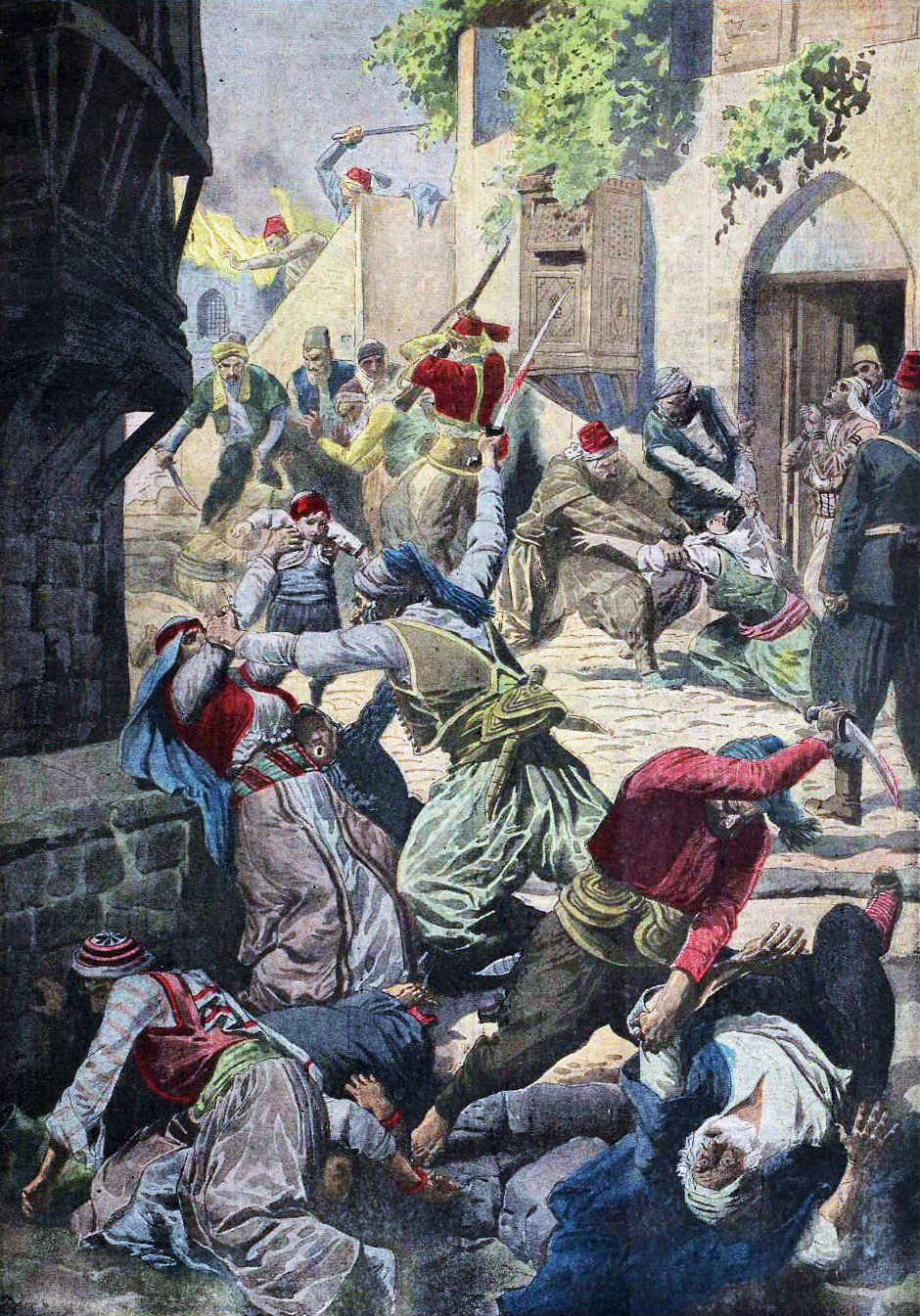 Armenian Genocide in the Petit Journal